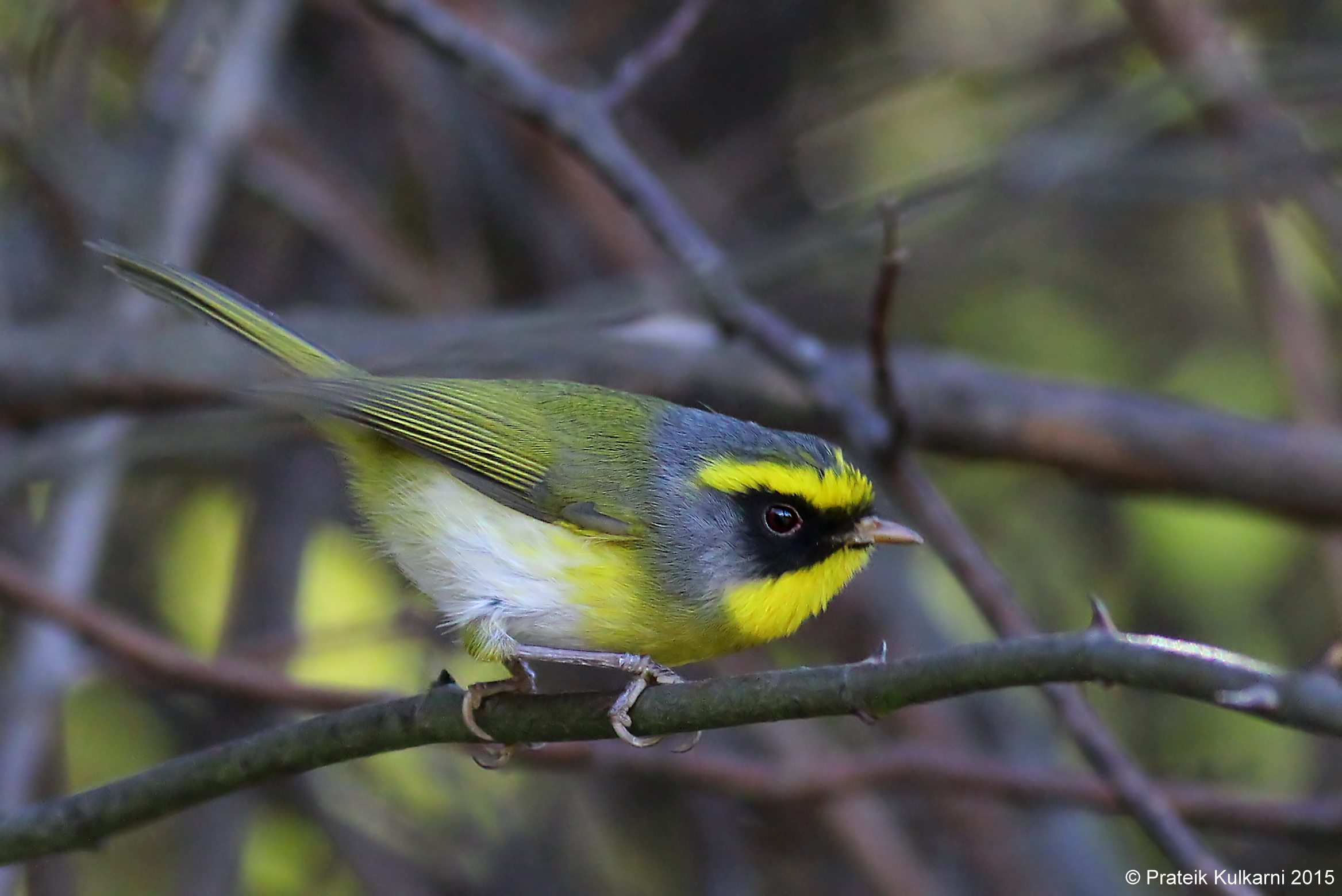 It must be the prettiest warblers I have ever seen!